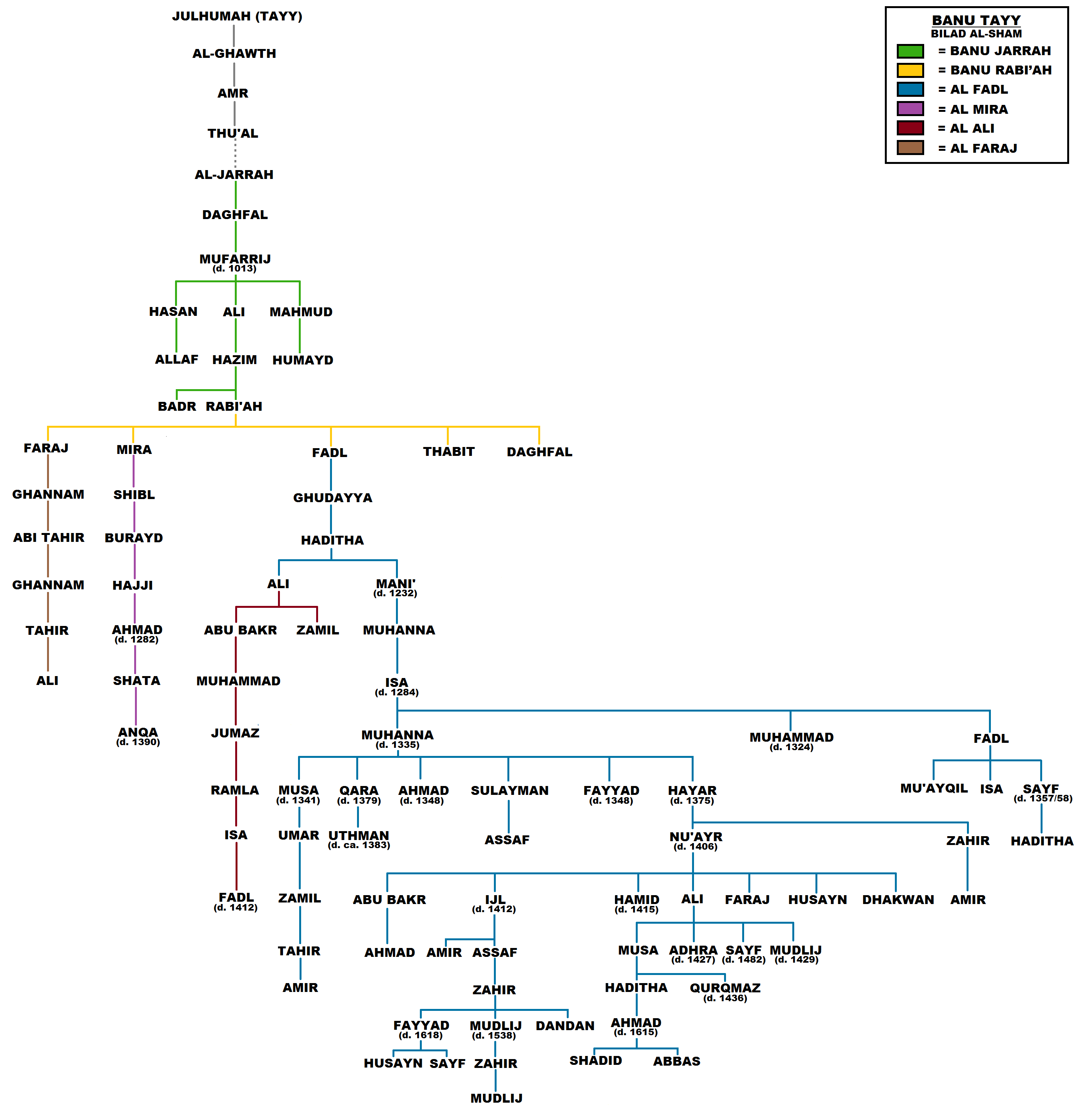 Genealogy of the Banu Tayy of Syria and its sub-tribes The green line depicts the Jarrahids The yellow line depicts the Banu Rabi'ah The blue line depicts the Al Fadl The magenta line depicts the Al Mira The burgundy line depicts the Al Ali The following sources were used for this genealogy map: Canard, Marius (1991) [1965] D̲j̲arrāḥids, Leiden and New York: BRILL, pp. 482-484 ISBN: 90-04-07026-5. Bakhit, Muhammad Adnan (1982) The Ottoman Province of Damascus in the Sixteenth Century, Librairie du Liban (1975). "The Origins and Development of the Amīrate of the Arabs during the Seventh/Thirteenth and Eighth/Fourteenth Centuries". Bulletin of the School of Oriental and African Studies 38 (3). (1948). "The Tribes of Syria in the Fourteenth and Fifteenth Centuries". Bulletin of the School of Oriental and African Studies 12 (3/4).